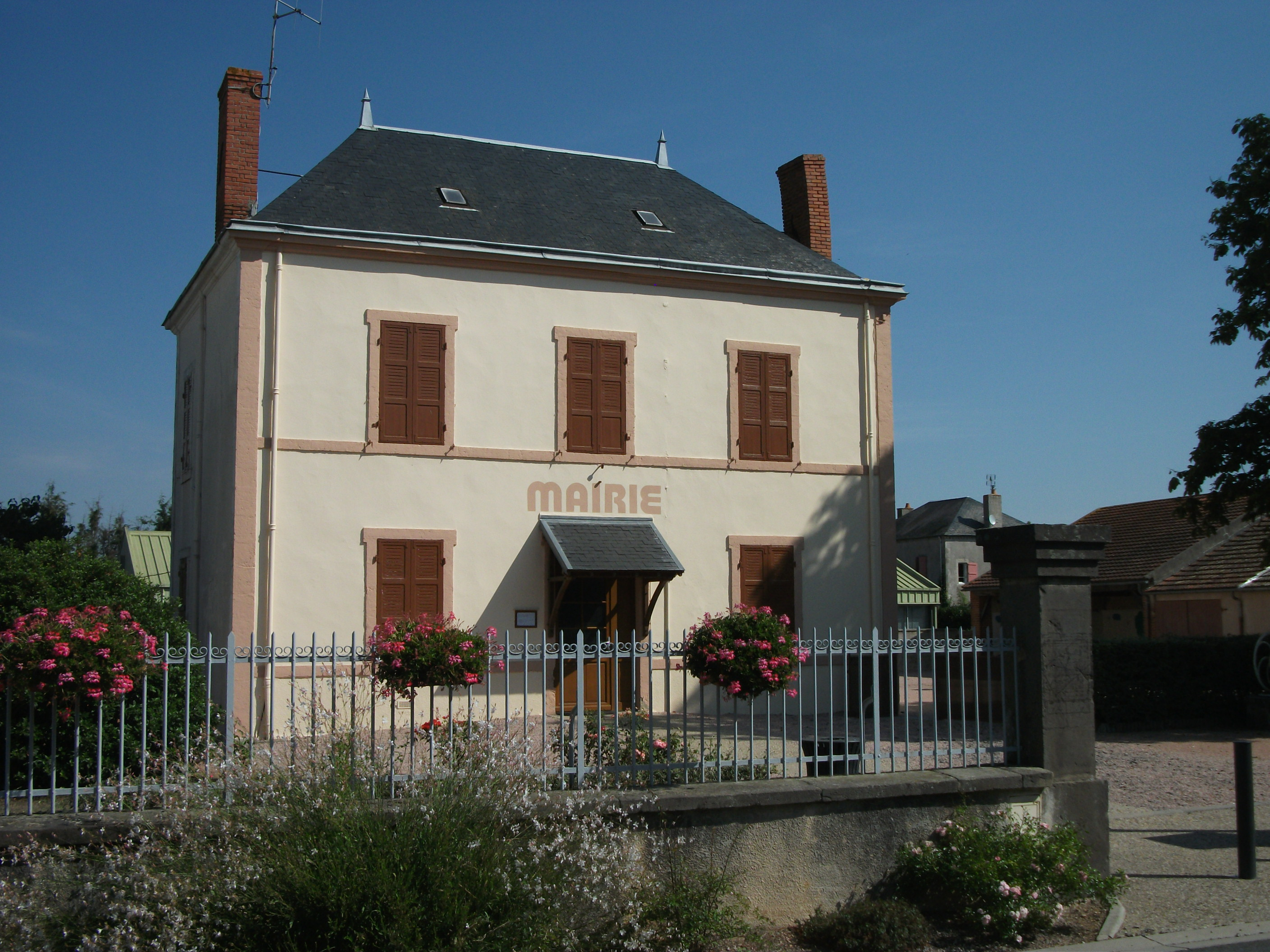 Town hall of Marcenat [8601]